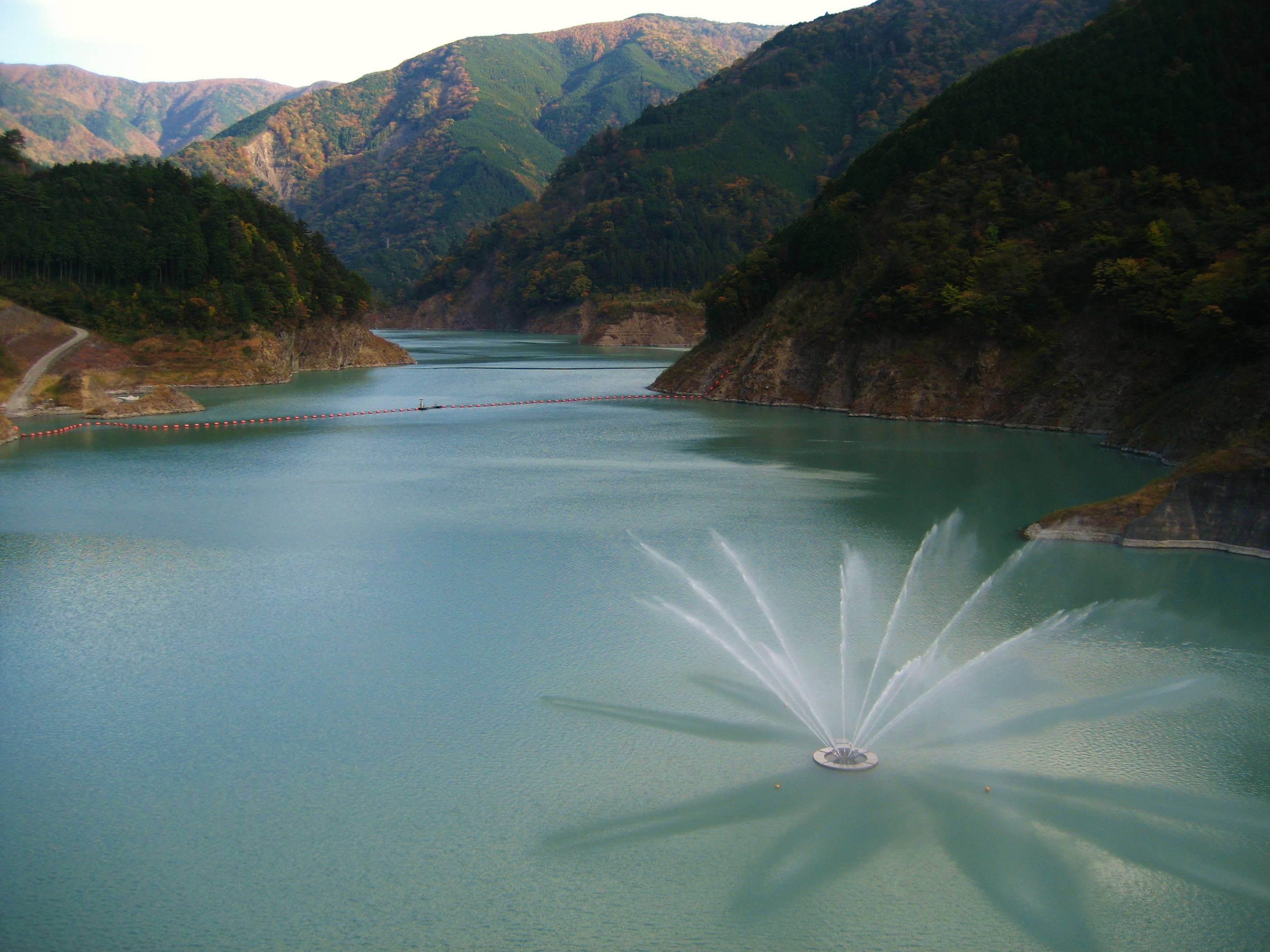 Lake Sesso, reservoir of the Nagashima Dam